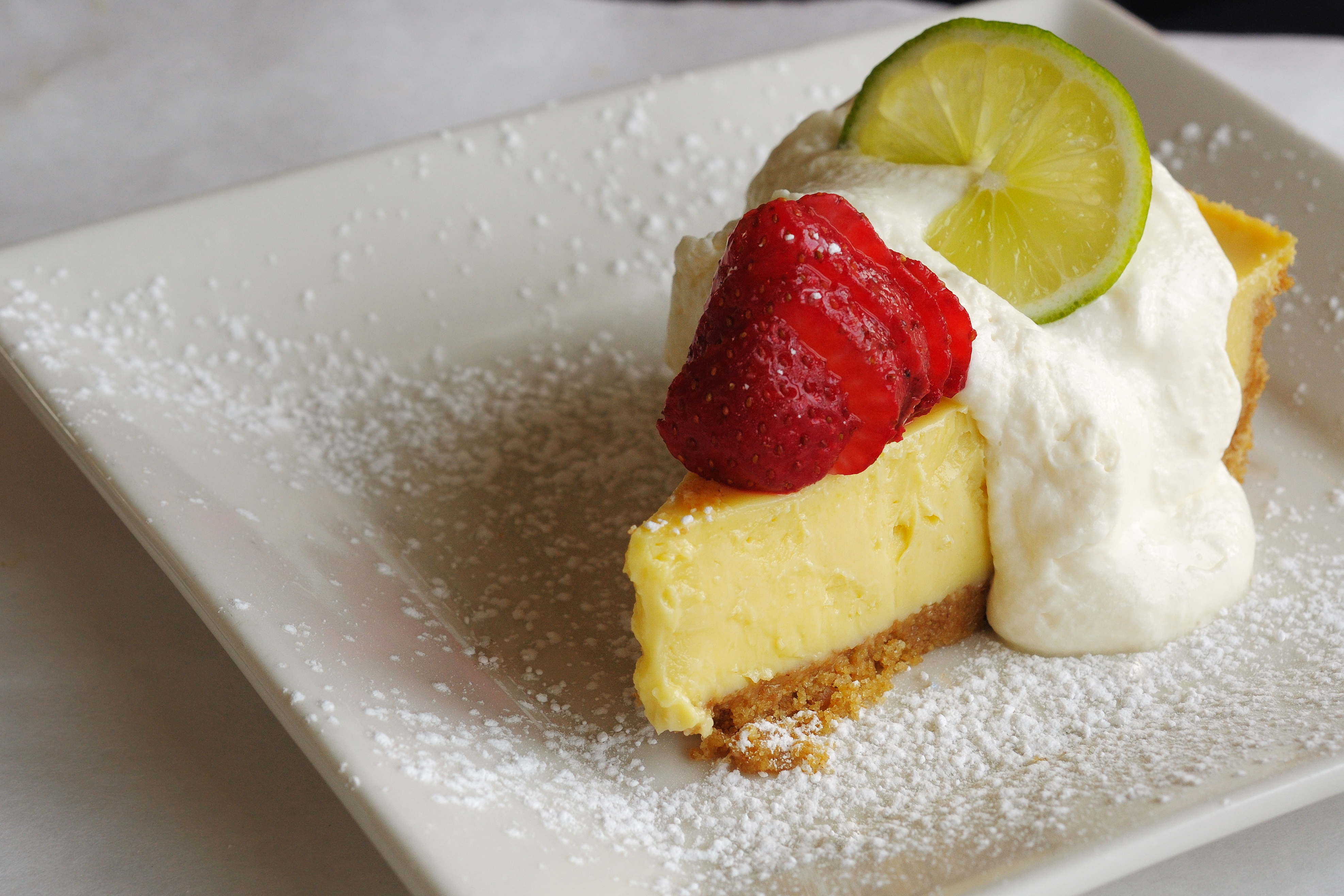 Key Lime Pie at Coastal Kitchen.